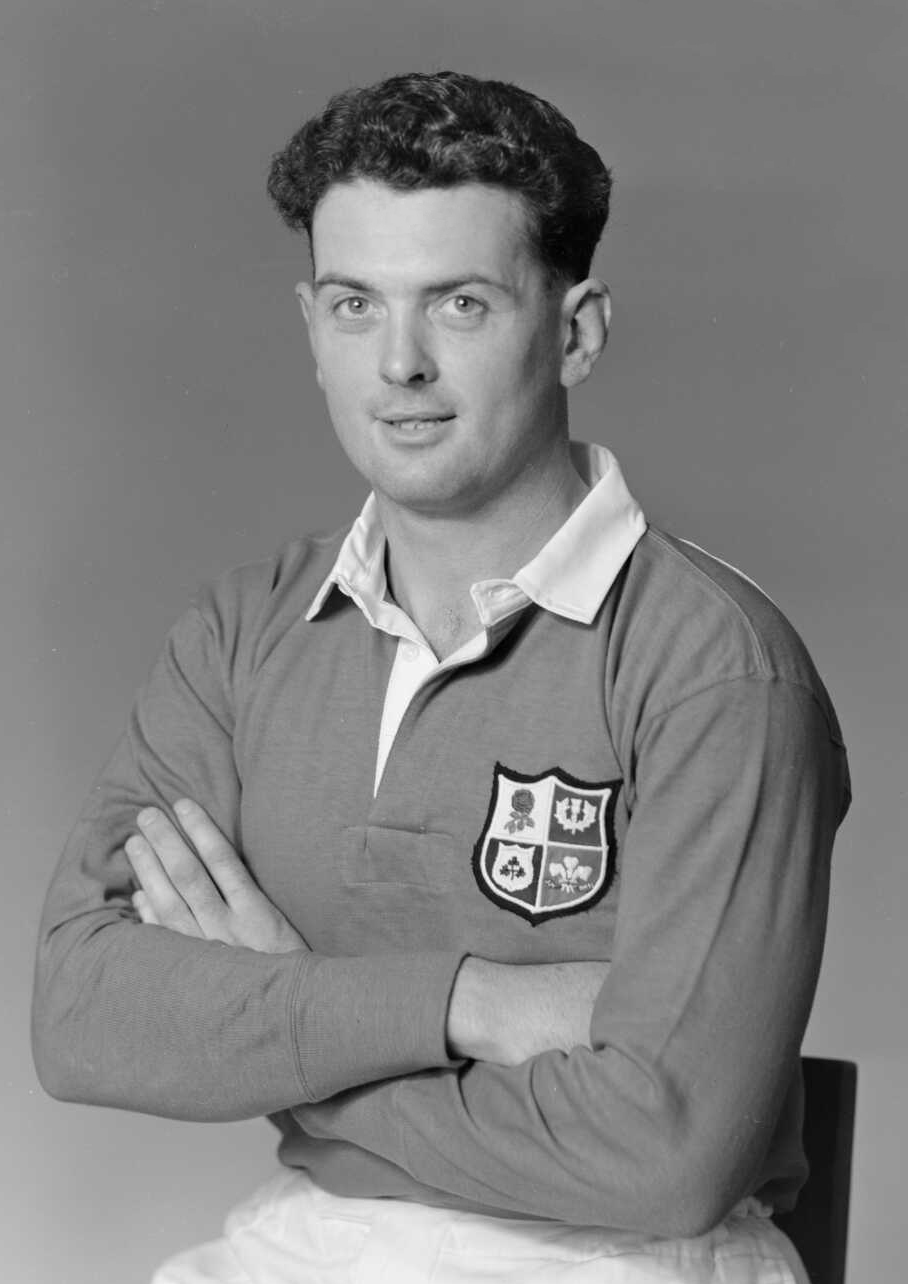 J R G Stephens, member of the British Lions rugby union team